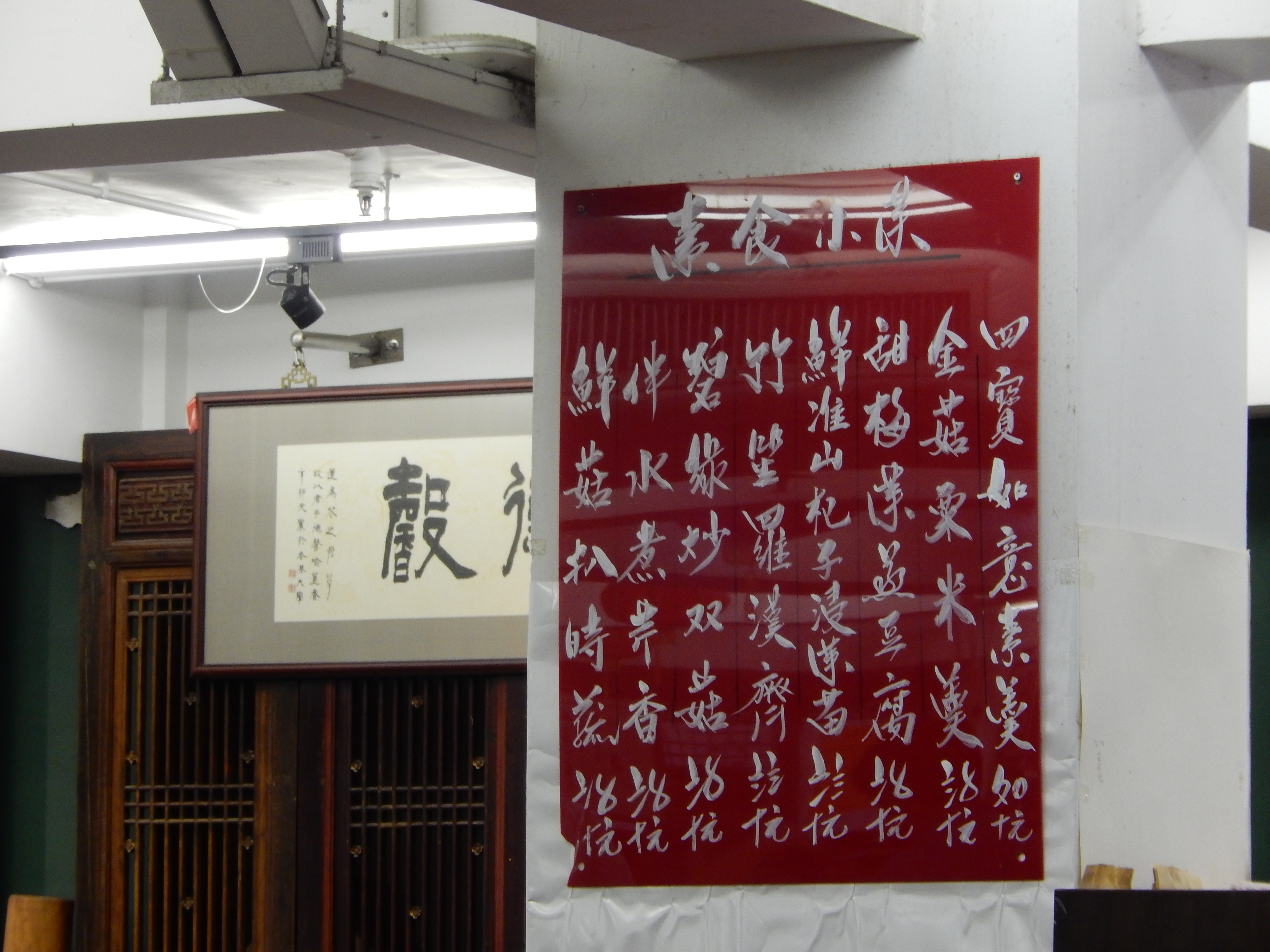 A menu on the wall in Lin Heung Kui written with ink brush. The prices are in Suzhou numerals. A staff member of the restaurant interviewed by Oriental Daily News explained that with ink brush, it is easier and more beautiful to write in Suzhou numerals than in Arabic numerals, as the latter are too cursive, so in the old days, Suzhou numerals had been a must for Chinese restaurants. 中文（香港）: 蓮香居毛筆字餐牌，花碼標價錢。東方日報報道，酒樓職員稱用毛筆寫阿拉伯數字太多彎，不好看，用花碼才有書法美，故酒樓以前必定用花碼。